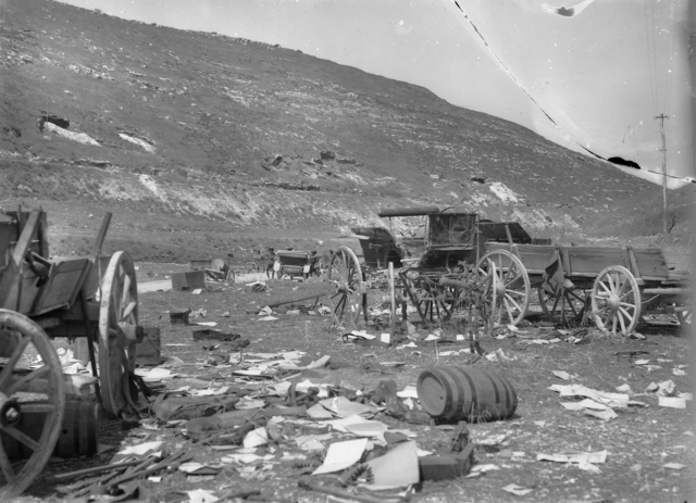 Photograph of German transport destroyed by aerial bombing on the Nablus to Jenin road in September 1918.